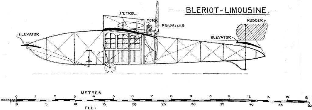 Side view diagram of the 1911 aircraft, the Blériot XXIV "Limousine" (also referred to as the Aeronef and the Bleriot Berline).